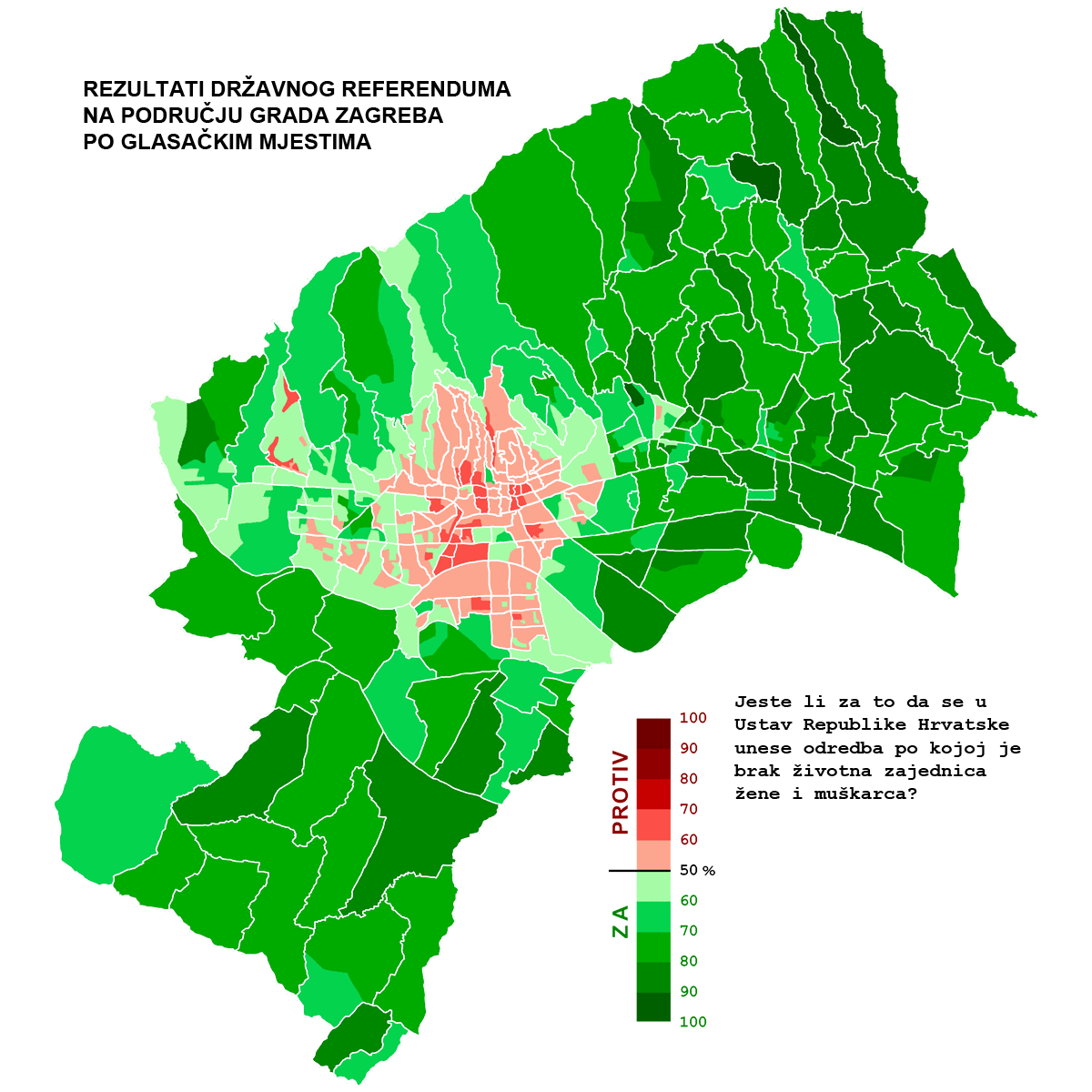 Map of Zagreb local committees showing the results by precinct (polling stations). State referendum on constitutional definition of marriage as matrimony between a man and a woman held in Croatia on 1 December 2013.